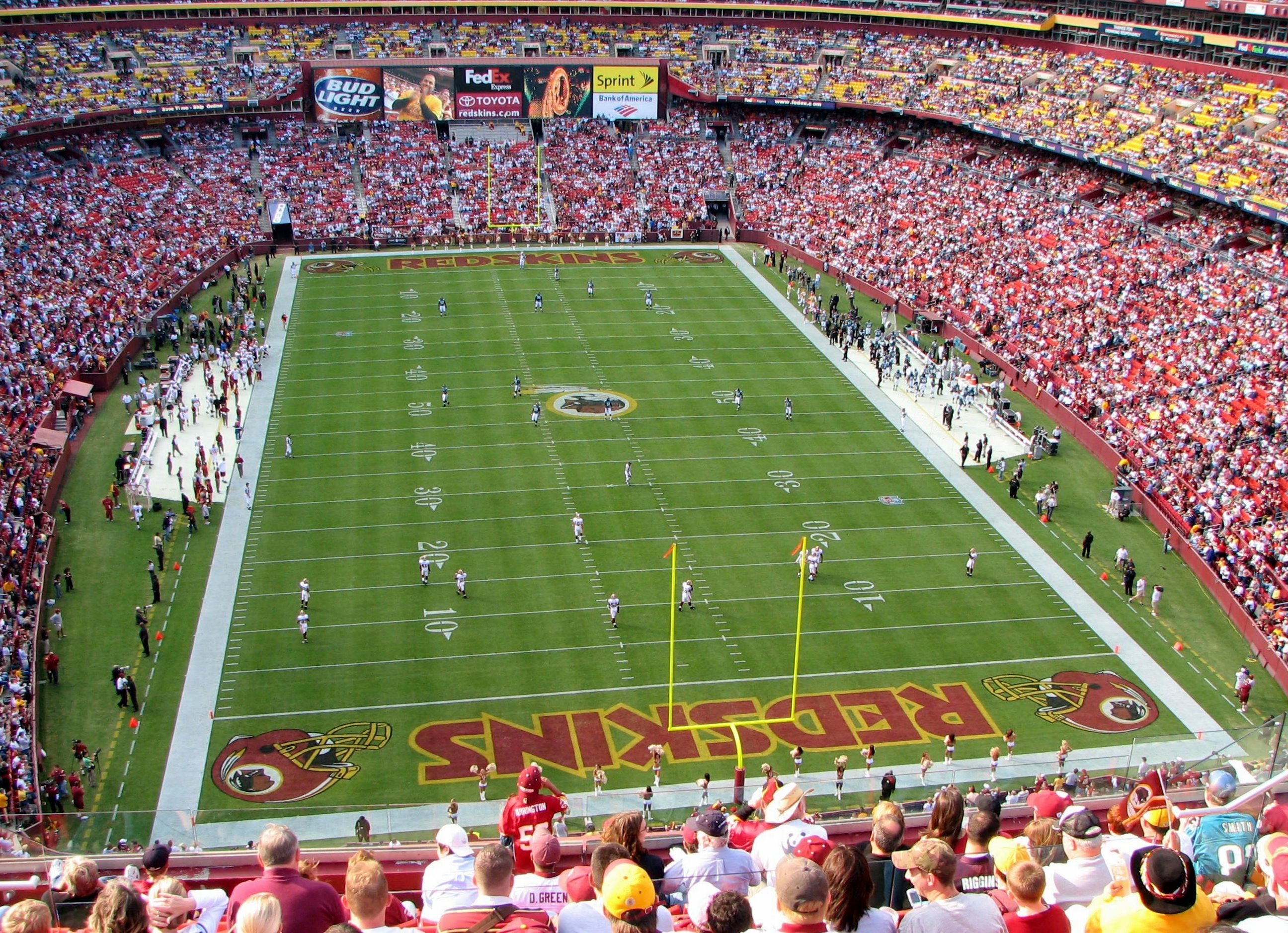 Washington Redskins game at FedExField, Landover, Maryland, U.S.